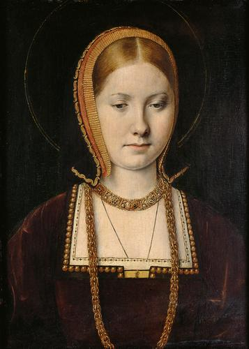 This portrait of an unknown noblewoman from the early 16 century was identified as a young Catherine of Aragon, c. 1500-1505, by Max Jakob Friedländer in 1915, based on comparisons with other paintings by Sittow. (Max J. Friedländer, “Gemäldegalerie. Ein neu erworbenes Madonnenbild im Kaiser-Friedrich-Museum”, Amtliche Berichte aus den Königlichen Kunstammlungen, 36, 9 (1915), pp. 1-4.) This was subsequently challenged by Matthews (Paul G. Matthews, “Henry VIII’s Favourite Sister? Michel Sittow’s Portrait of a Lady in Vienna”, Jahrbuch der Kunsthistorischen Museums Wien 10 (2008), pp. 140-149.), who argued it was Mary Tudor, Henry VIII's sister, painted in 1514. The website of the Kunsthistorische Museum (where the portrait is located) describes this painting as both "Portrait of a princess (Infanta Catharine of Aragon (1485-1536), Queen of England?)" ( and "Mary Rose Tudor (1496-1533), sister of Henry VIII of England". In the physical gallery the painting is described as Mary Rose Tudor.(